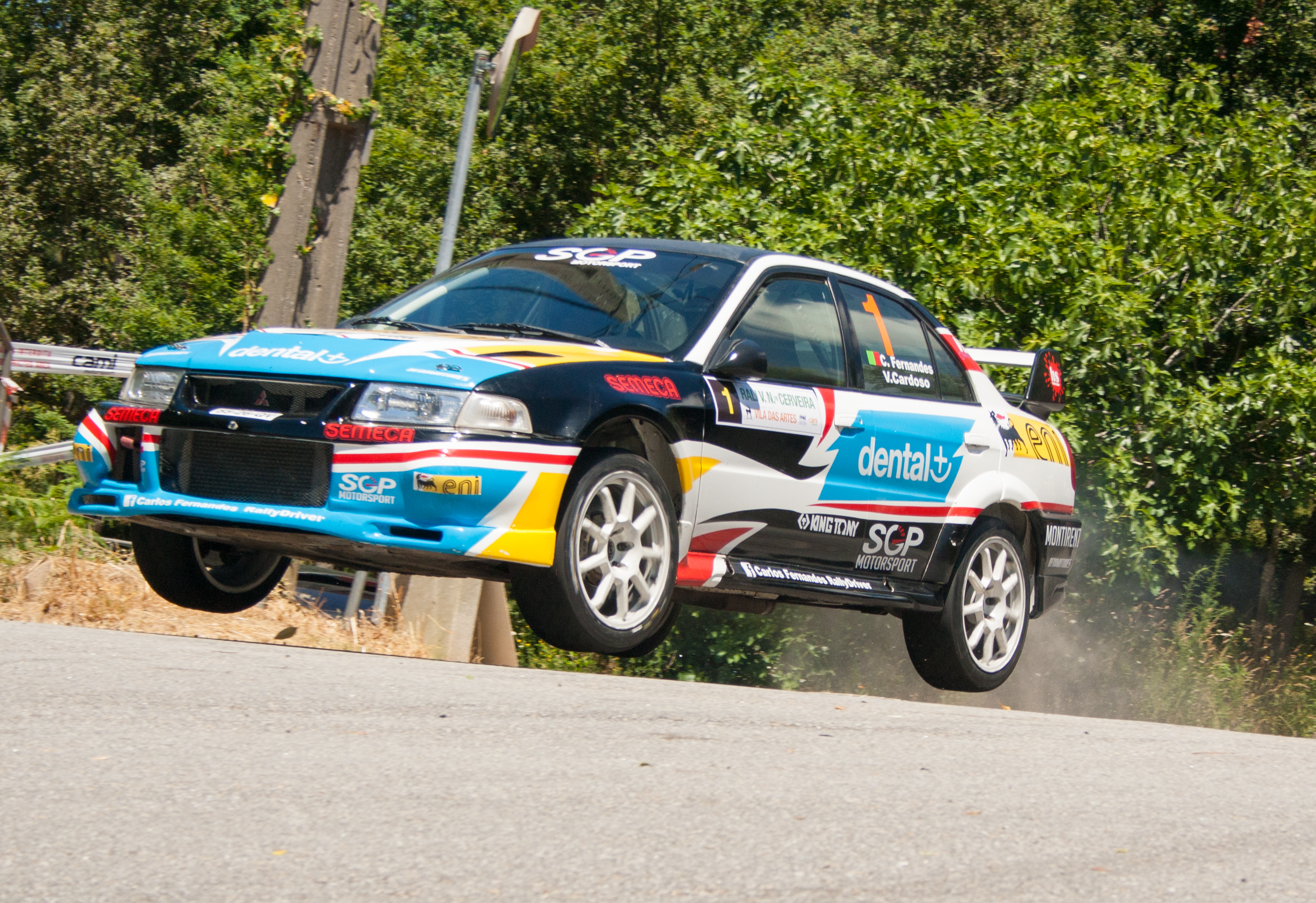 Rali Vila Nova de Cerveira